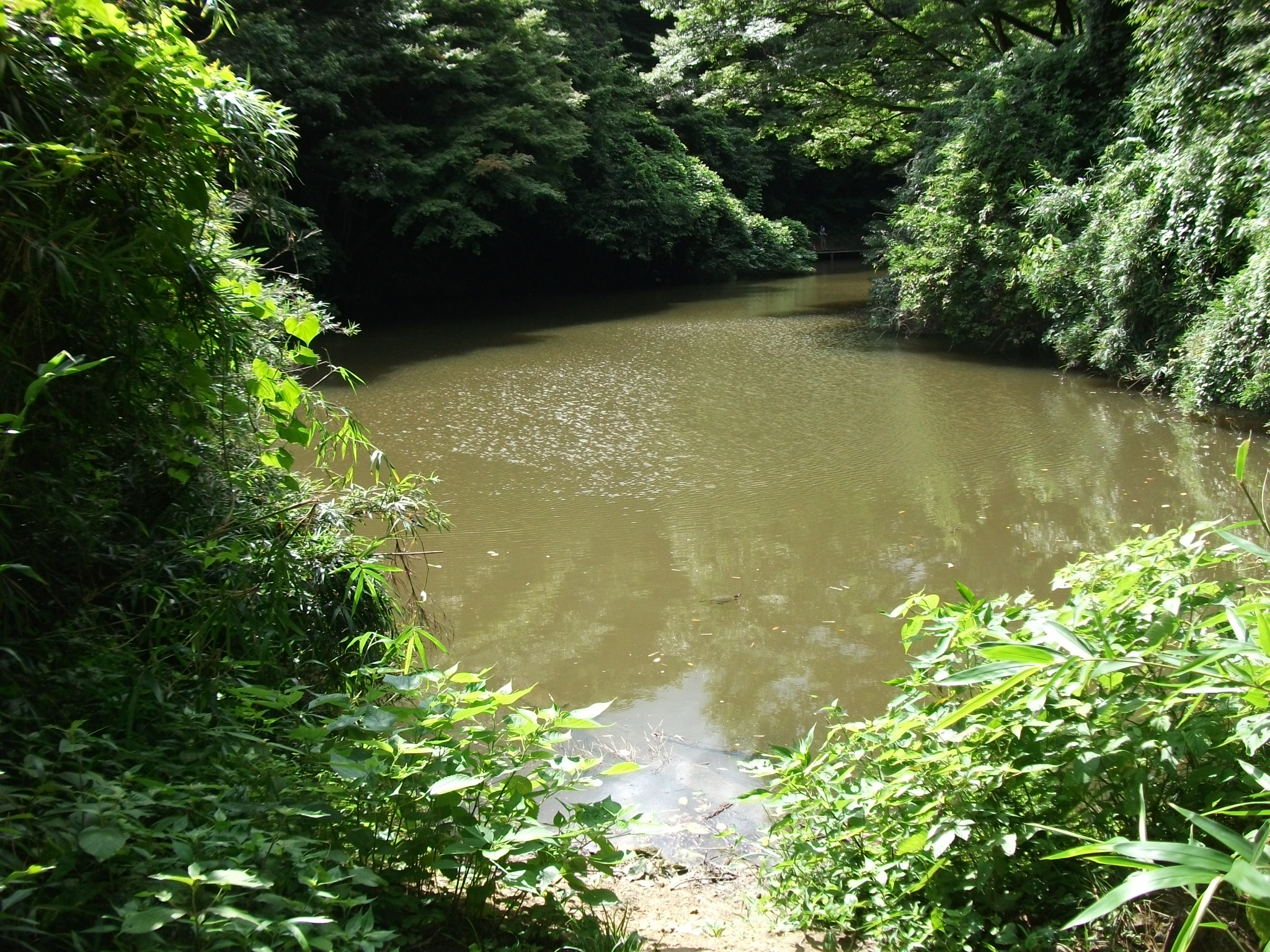 Segami-ike (Yokohama, Japan)